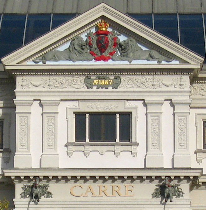 Pediment of Koninklijk Theater Carré, Amsterdam.